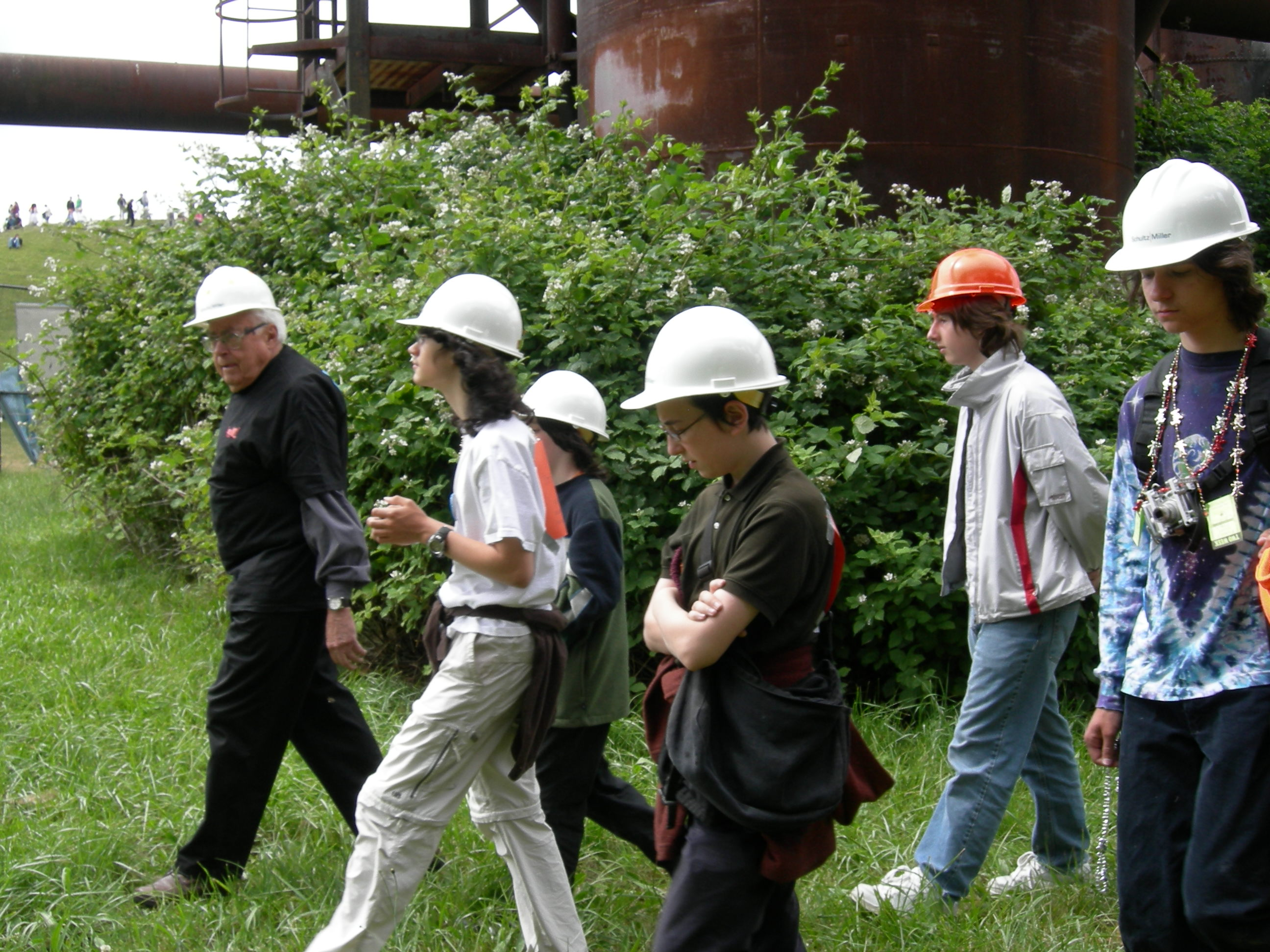 Group receiving a guided tour of the "forbidden zone" at the heart of Seattle's Gas Works Park (considered by the city to be too dangerous because of the towering structures of the old gas works). The zone was opened as a hardhat zone during part of the 2007 Fremont Fair. Tour is led by landscape architect Richard Haag, who originally designed the park.